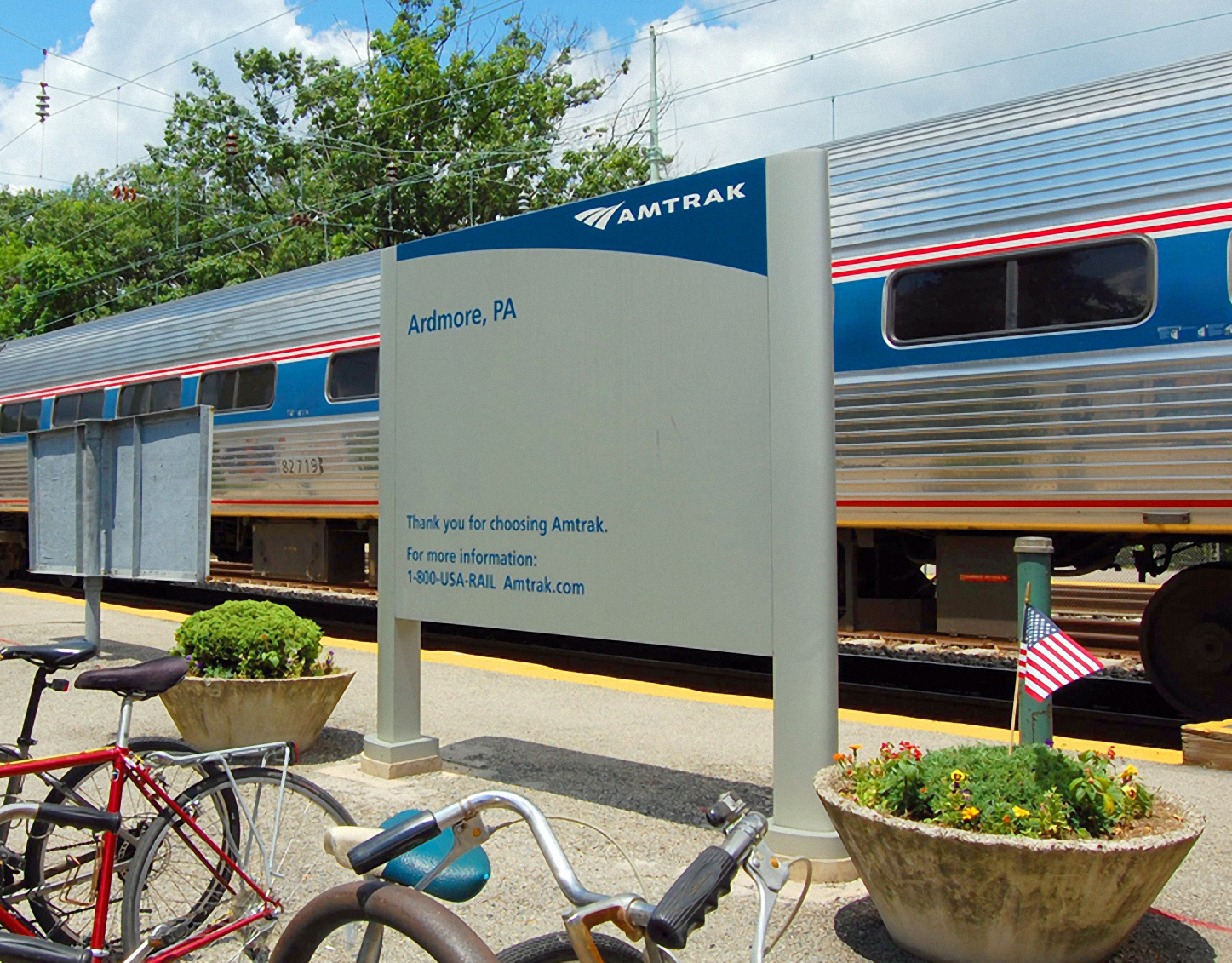 Ardmore, PA AMTRAK/SEPTA Train Station (Keystone Corridor MP 8.5) with Eastbound AMTRAK "Keystone Service" (Harrisburg-Paoli-Ardmore-Philadelphia-Trenton-Newark-New York) stopped on Track 1.